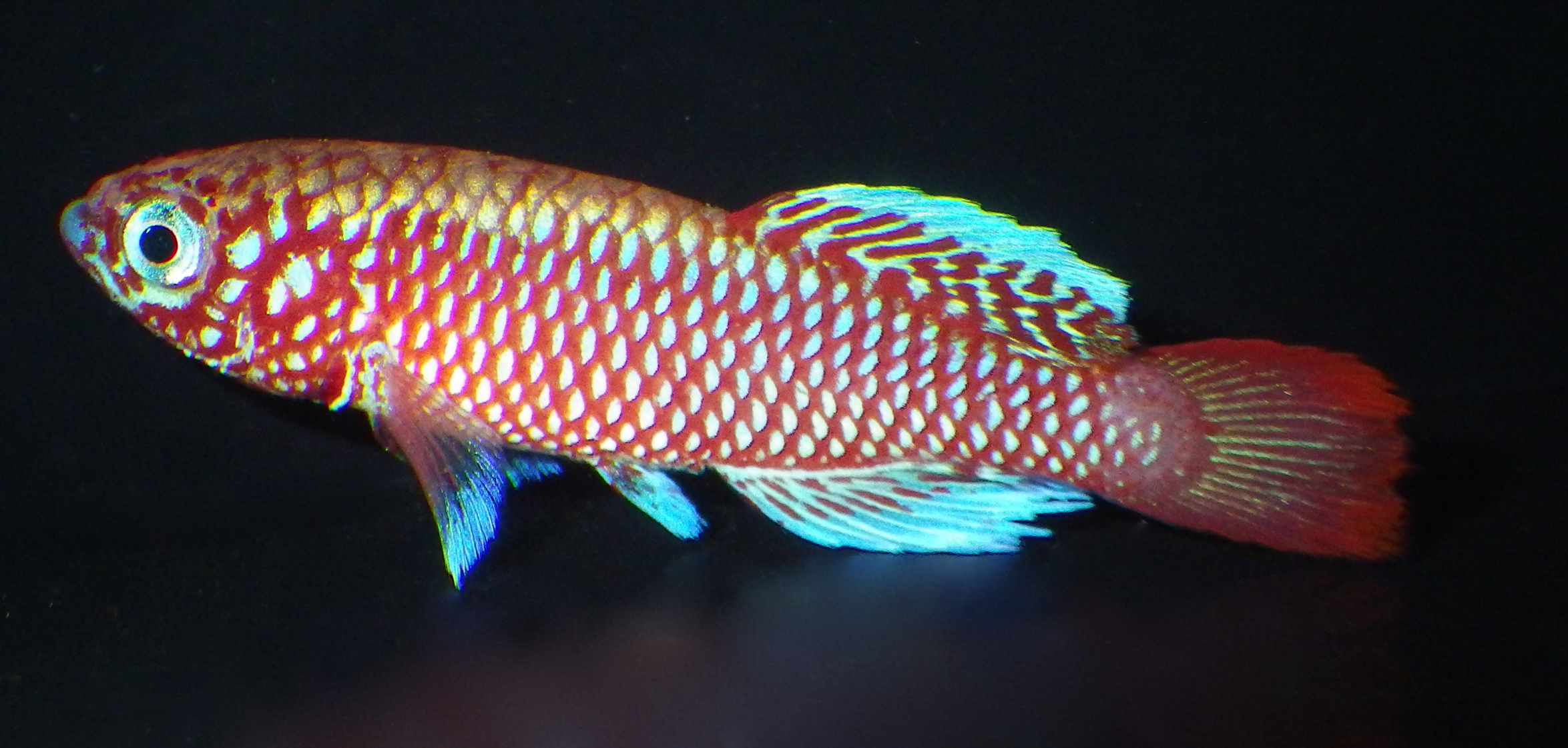 Nothobranchius kilomberoensis male